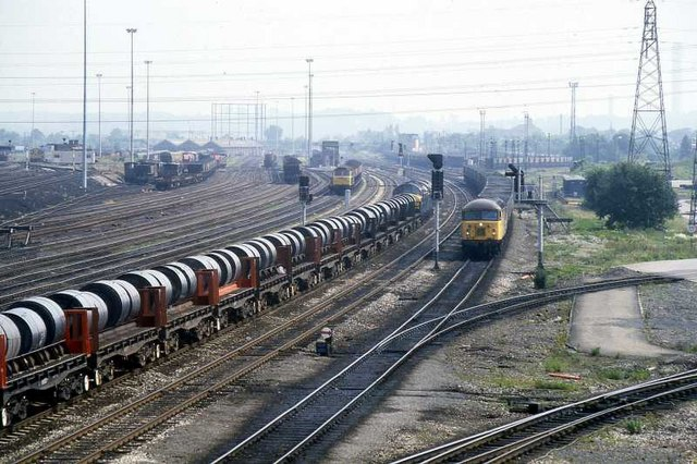 Toton Sidings The Lackenby - Corby steel train passes on the up main line, whilst a Cl.56 leaves the North Yard with coal empties on the 2nd down goods line.